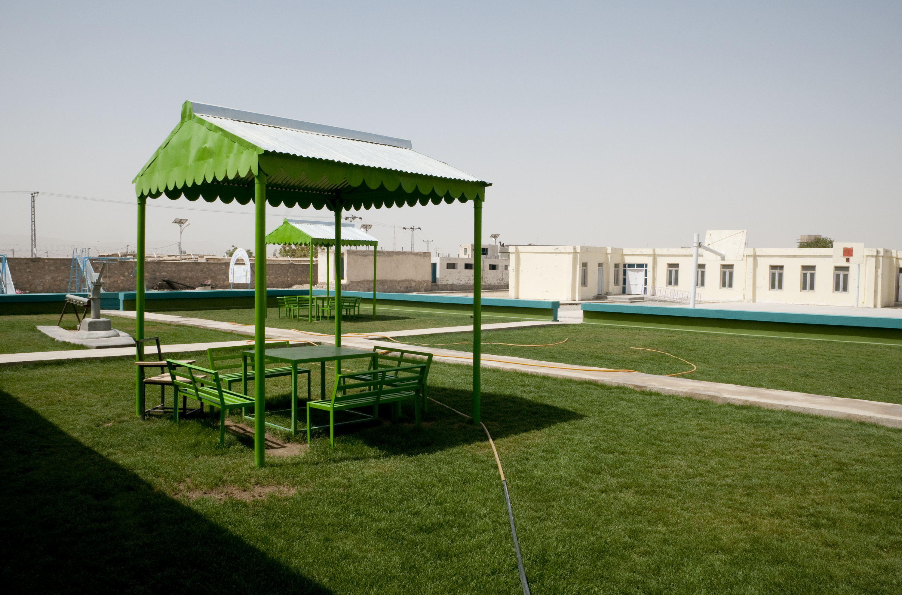 A newly renovated courtyard sits in the center of Bibi Khala Girls' School in Qalat City, Zabul province, July 9, 2010. The renovation project improved the quality of life and learning environment for nearly 1,500 Afghan girls. Provincial Reconstruction Team Zabul, with the assistance from the U.S. Army Corps of Engineers and the U.S. Department of Agriculture, facilitates 28 projects that improve the quality of life for residents in the province. (Photo ID: 297906)